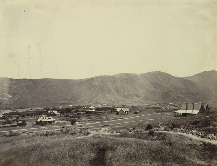 View of Abbottabad locale in the 1860s — in colonial British India. Abbottabad was a British army base for the region, with a detachment of Brigade of Gurkhas troops. Located in present day Khyber Pakhtunkhwa province, northwestern Pakistan. Black and white photographic print by an unknown photographer, from the Macnabb Collection, British Library, London. Photograph taken during the 1860s.